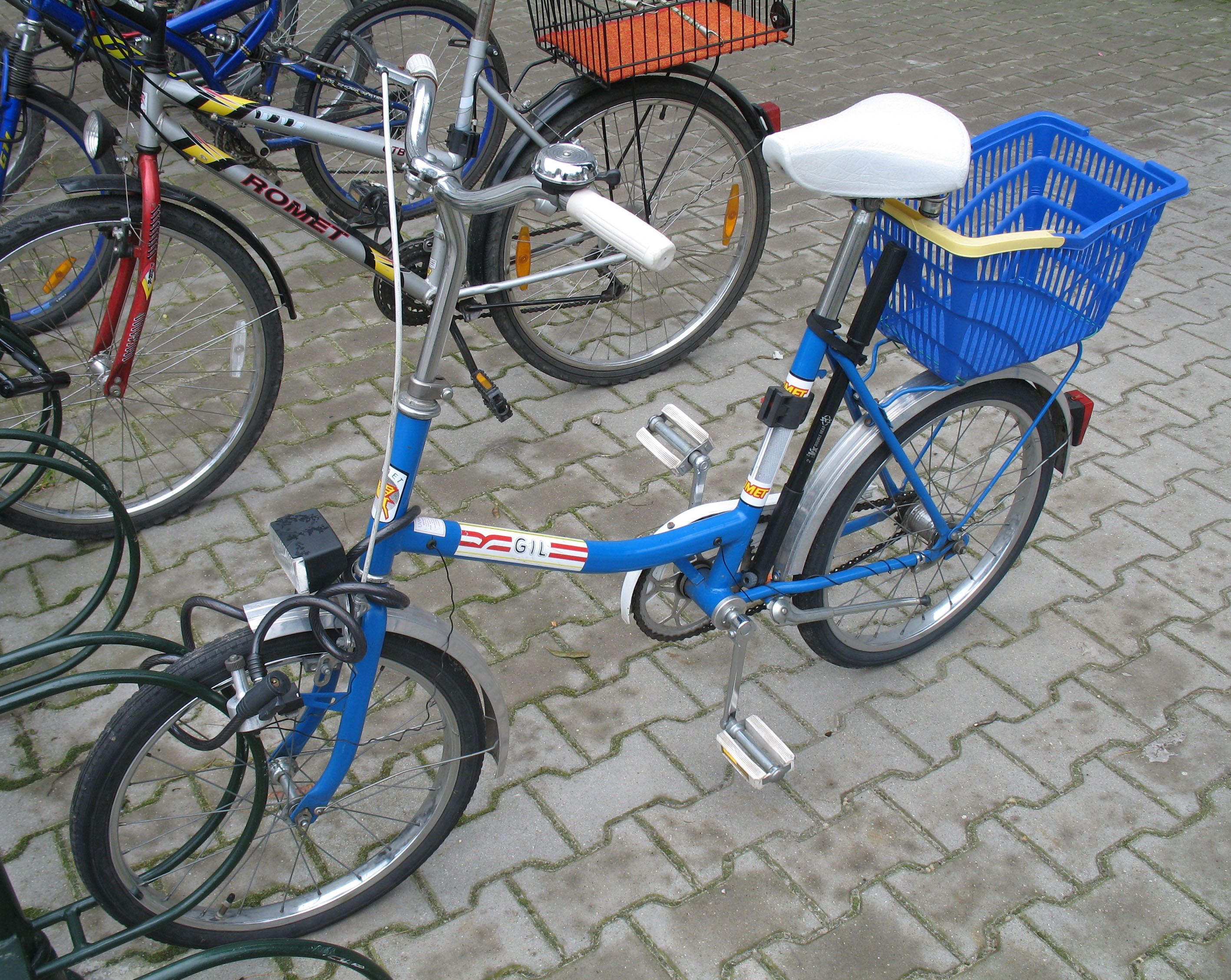 Romet Gil bicycle in Kraków, Poland.